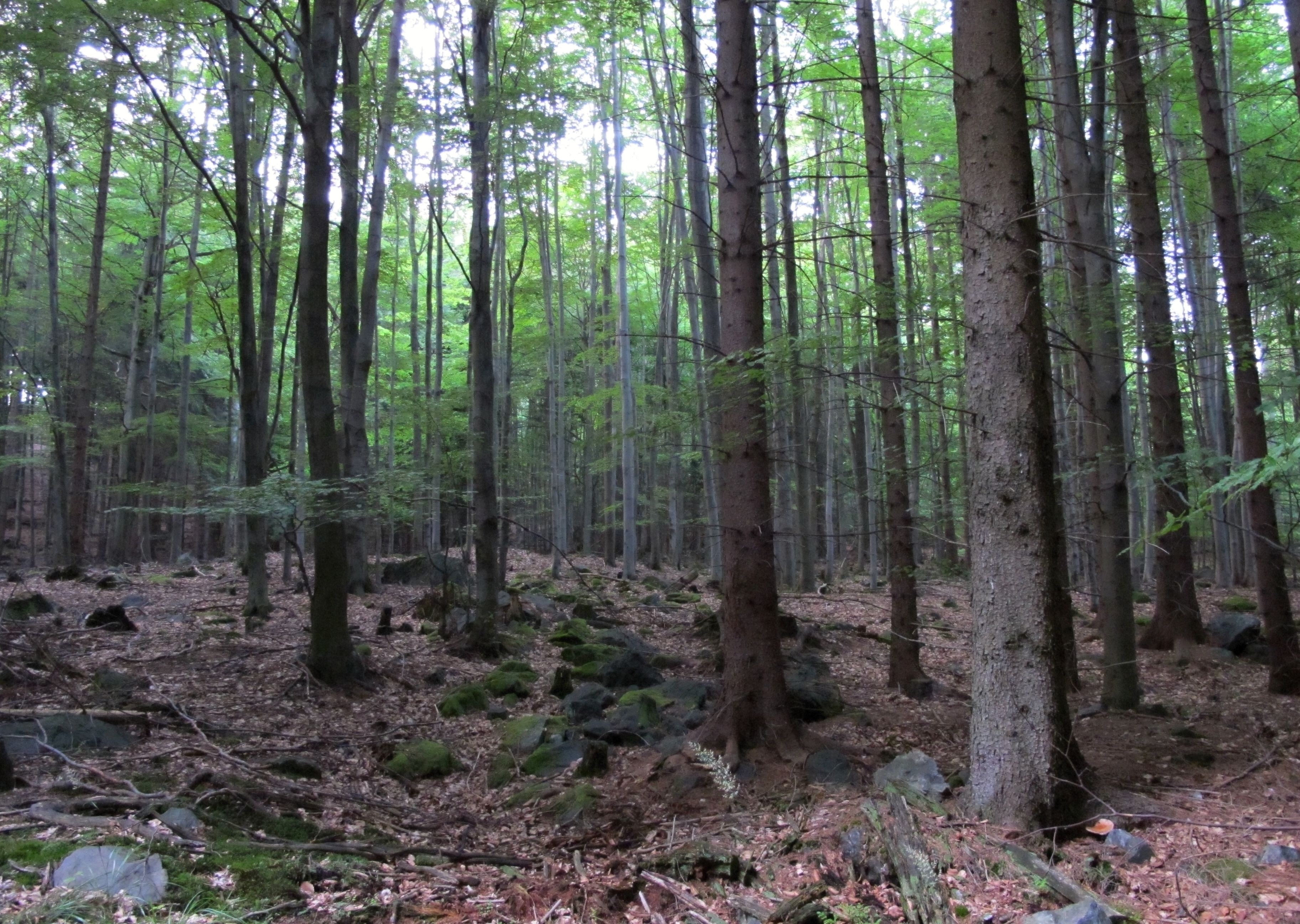 Nature reserve Na skalách, near Rožmitál pod Třemšínem in Příbram District (Czech Republic)